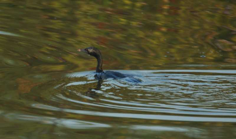 Little Cormorant Phalacrocorax niger